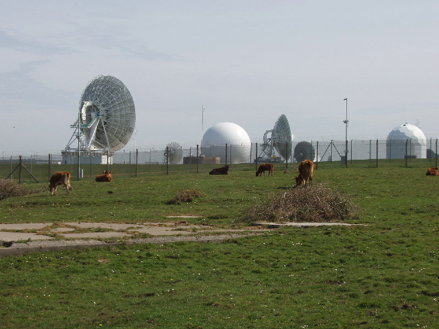 Cattle by GCHQ radio station This site was a World War 2 airfield, RAF Cleave. It is now GCHQ Composite Signals Organisation Station Morwenstow (being renamed GCHQ Bude).